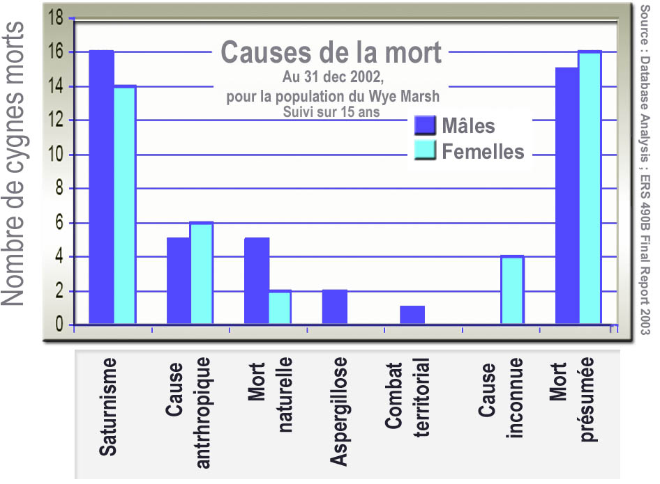 Causes of Death, December 31st, 2002 within a population of Trumpeter Swans (reintroduction program in Canada), with cygnus followed for 15 years. We see that human causes are still the first (lead poisoning ['Saturnisme'] induced by ingestion of lead shot + past accidents) and some of the other causes can also be promoted by avian lead poisoning.